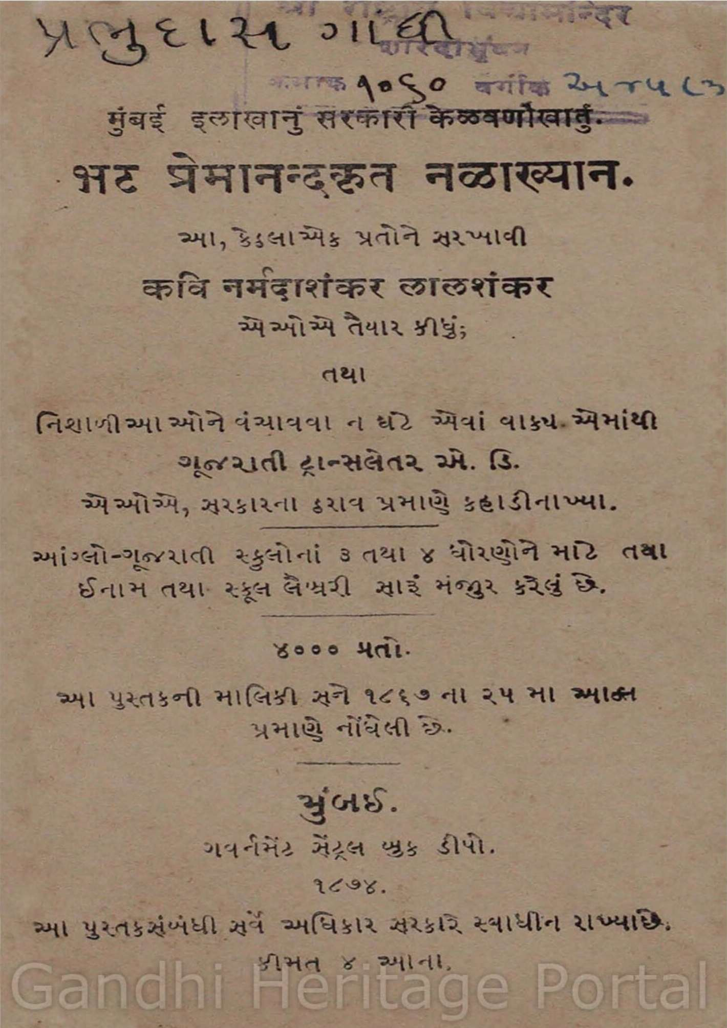 Title page of Nalakhyana, poem by 17th-century Gujarati poet Premanand Bhatt (1649–1714); edited by Narmad, published in 1874